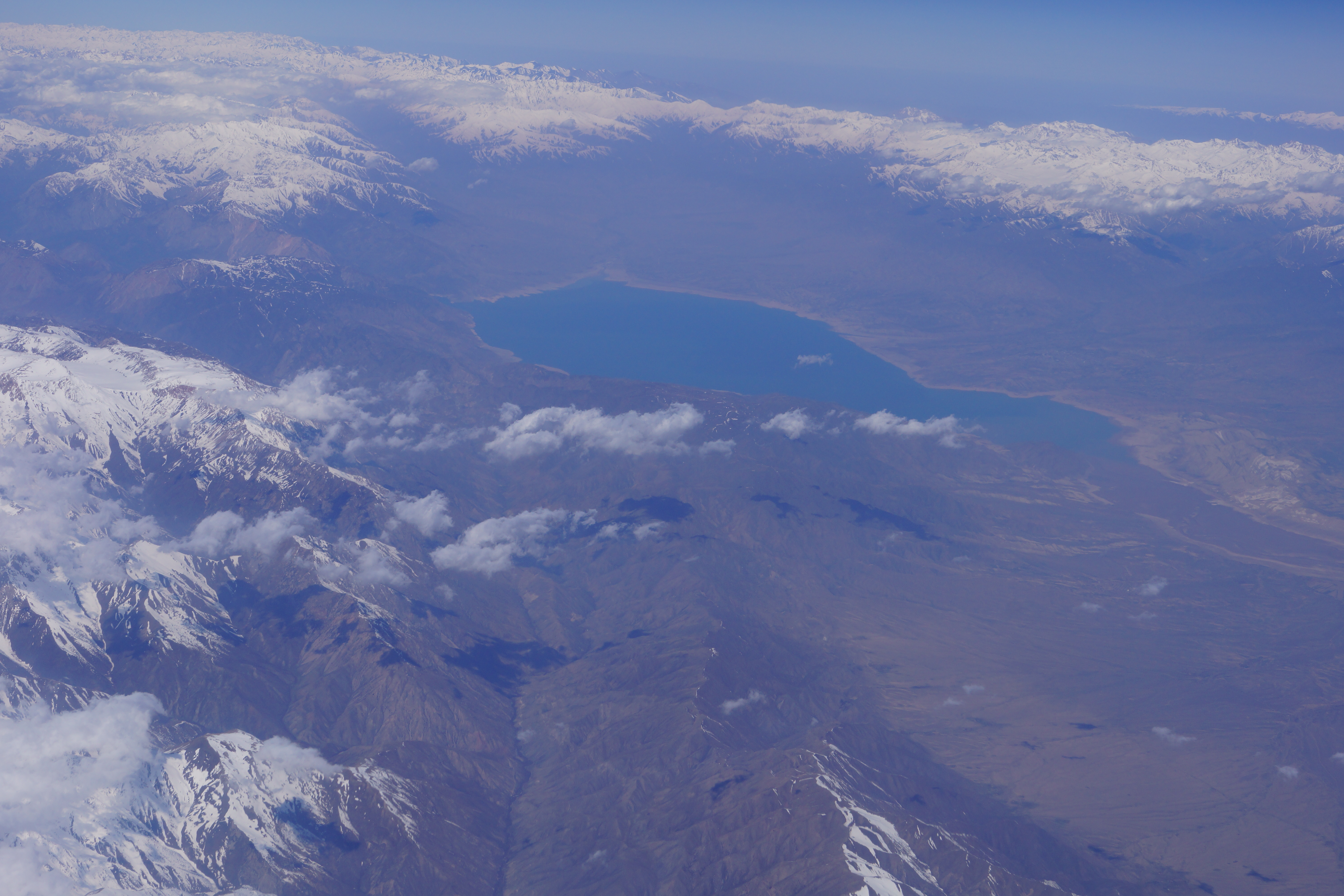 Toktogul Reservoir. View from a plane.